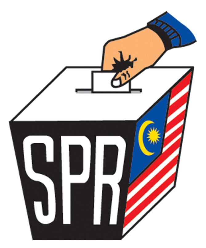 Election Commission of Malaysia logo since 1957Bahasa Melayu: Logo Suruhanjaya Pilihan Raya Malaysia sejak 1957